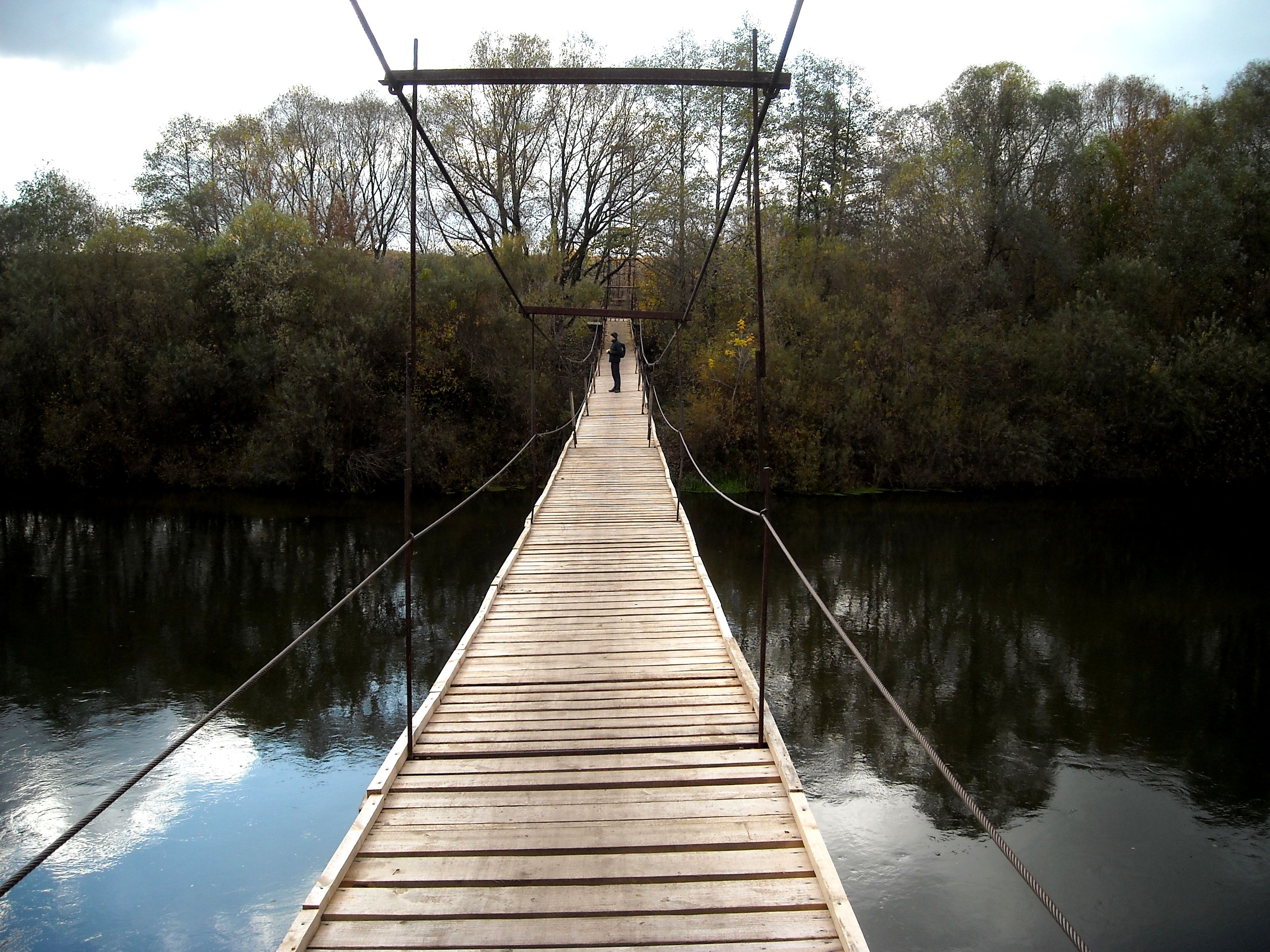 Seym river, Suspension bridge in Dichnia, Kursk region